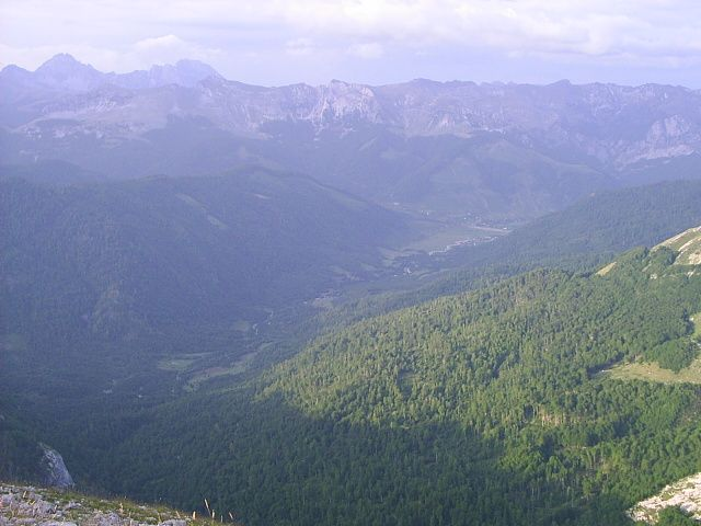 Komovi Mountain in the SE part of Montenegro